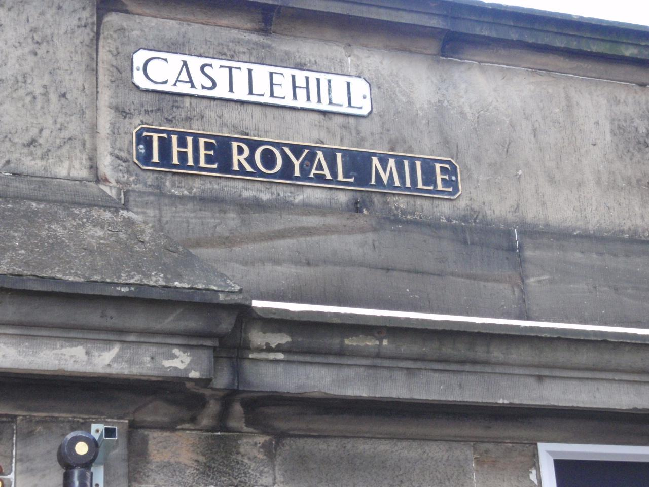 Royal Mile streetsign